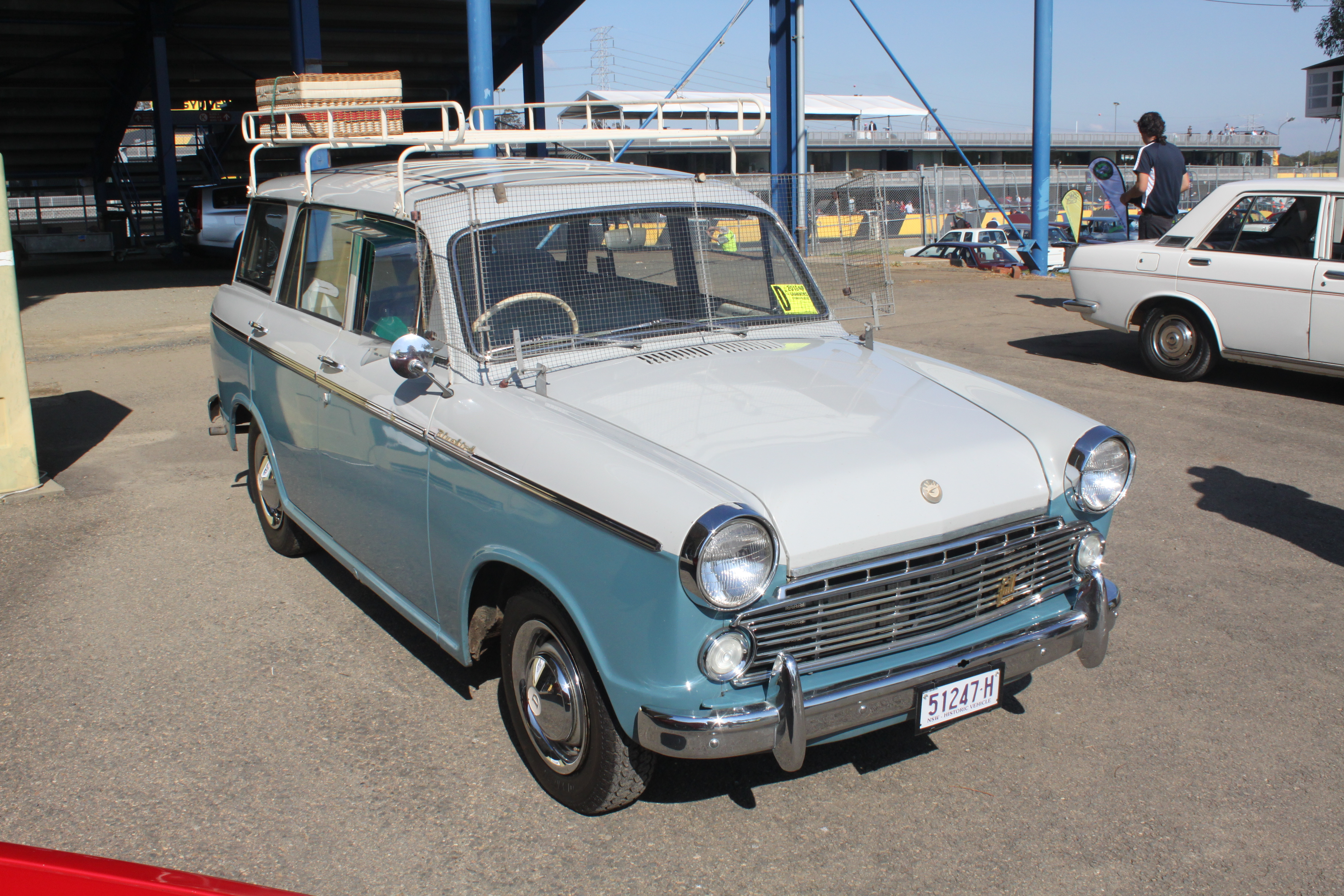 Shannon's Classic, Eastern Creek, NSW August 2015